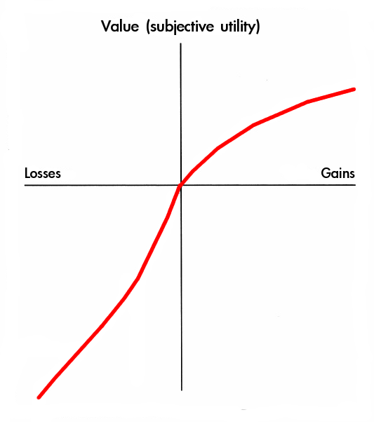 selfmade graph